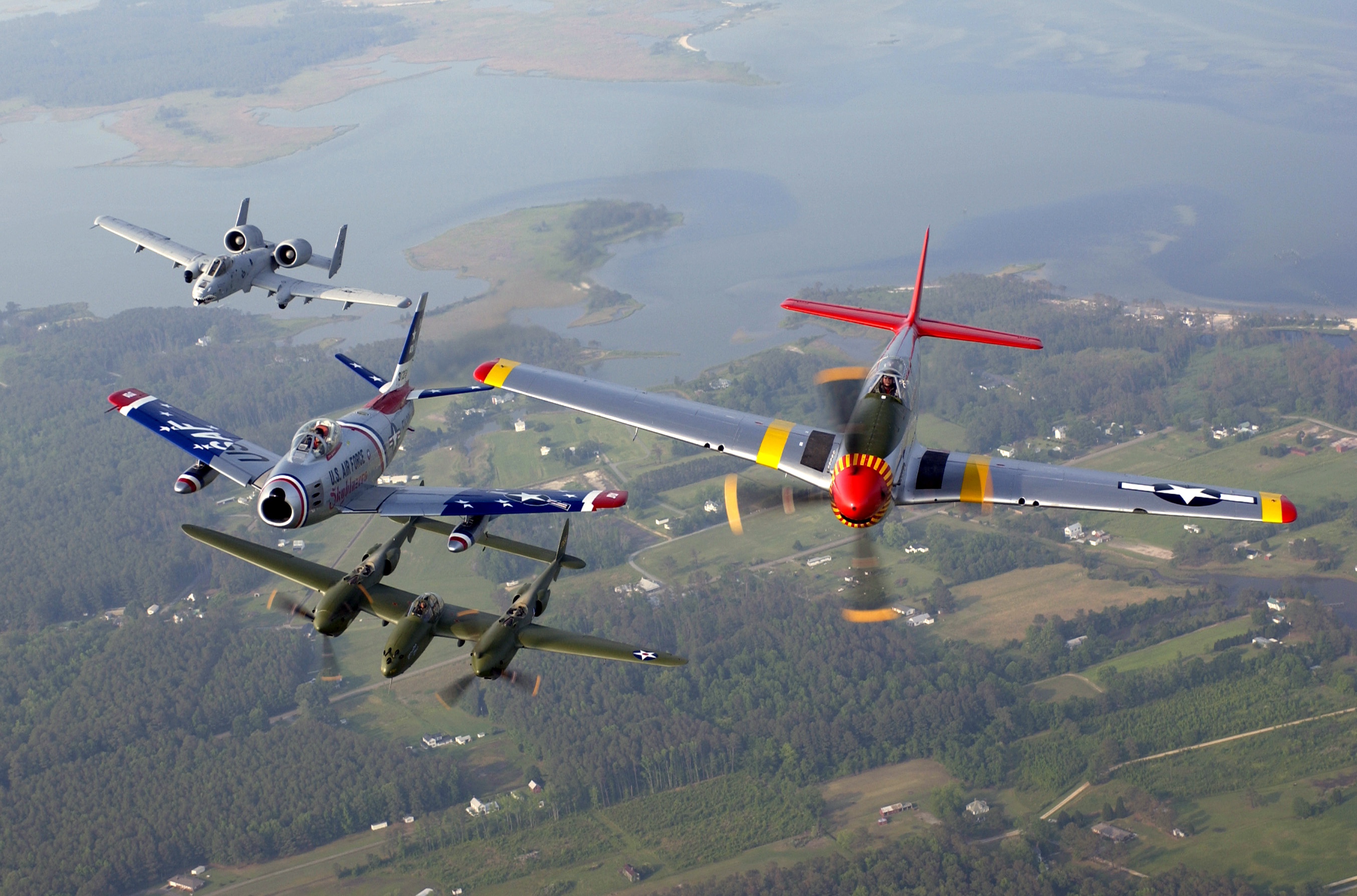 (From left) An A-10 Thunderbolt II, F-86 Sabre, P-38 Lightning and P-51 Mustang fly in a heritage flight formation during an air show at Langley Air Force Base, Va., on May 21. The formation displayed four generations of Air Force aircrafts.